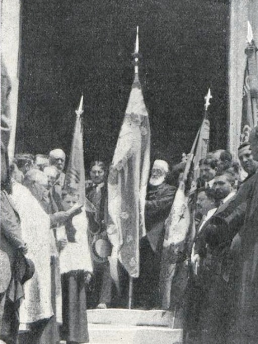 religious feast in Vich, Catalonia, 1908